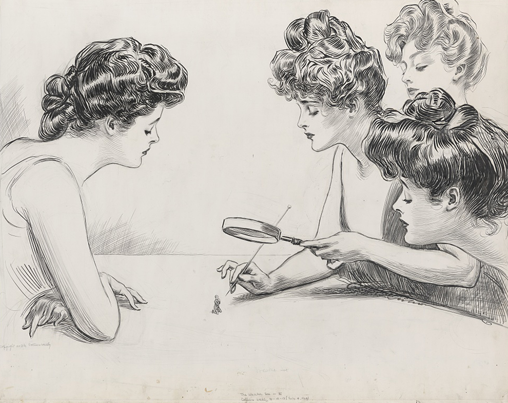 The weaker sex. II. Drawing shows four attractive young women observing a diminutive man through a magnifying glass; one woman is about to poke the man with a hat pin.